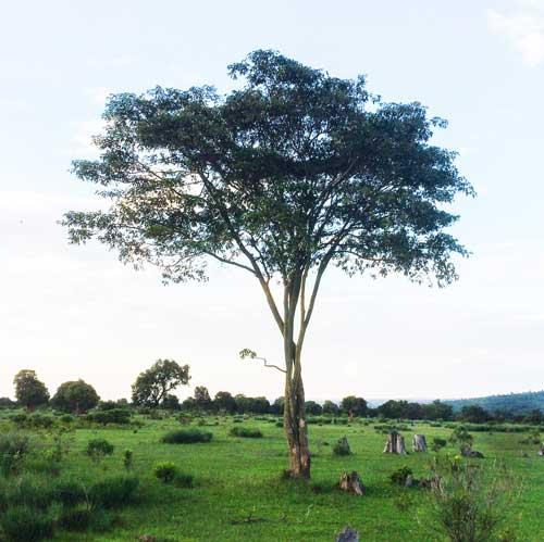 Single croton megalocarpus tree